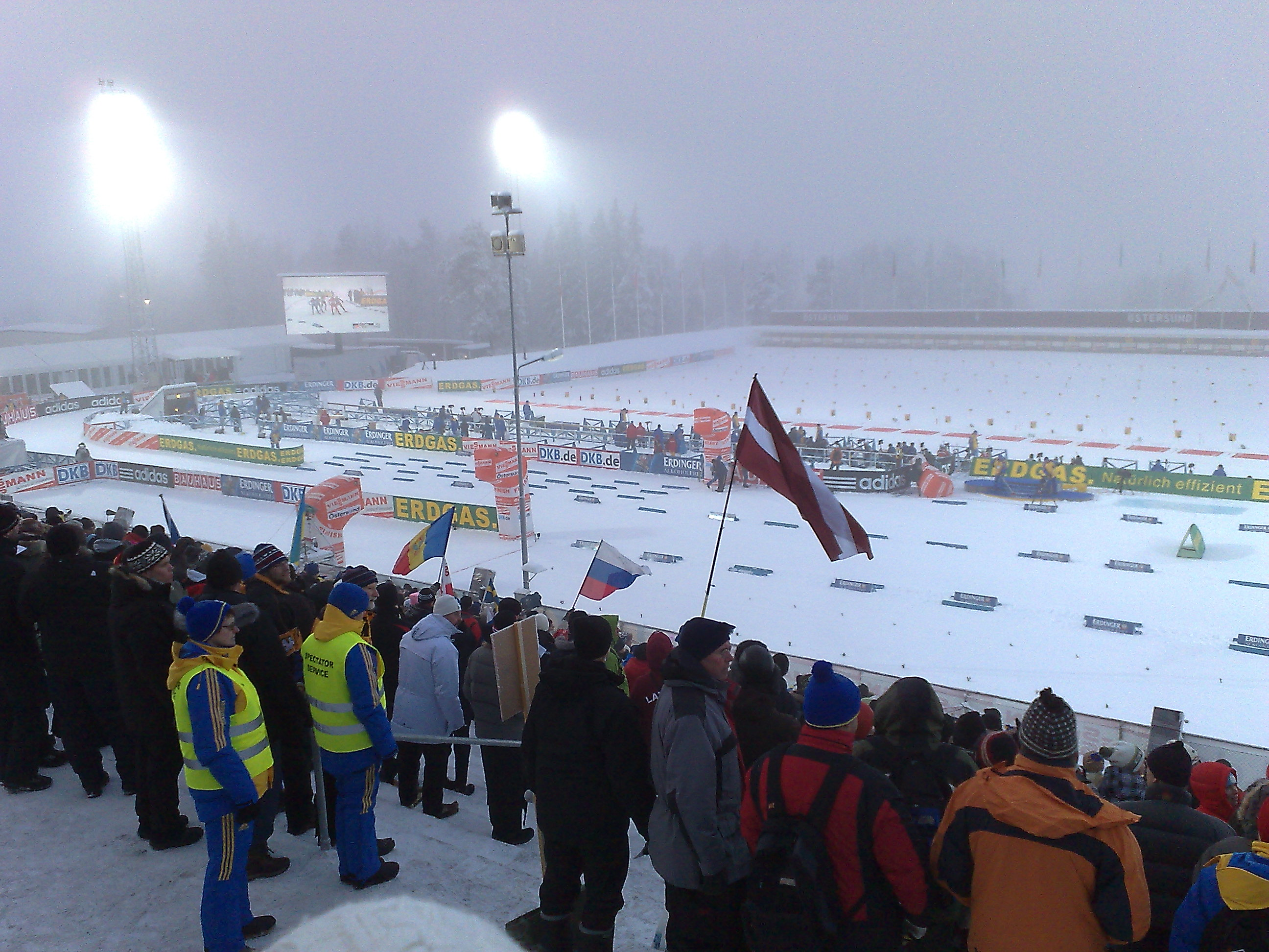 Worldcup in biathlon 2008/2009 in Östersund